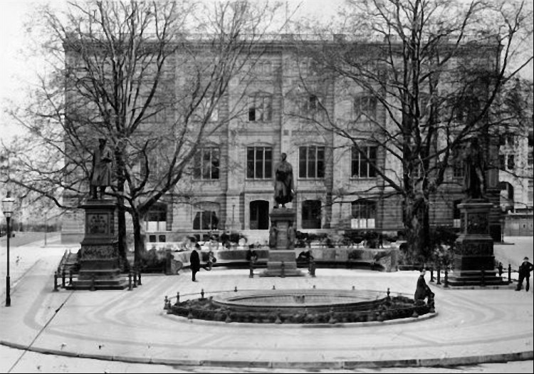 The "Schinkelplatz" in Berlin-Mitte. Photograph from 1888